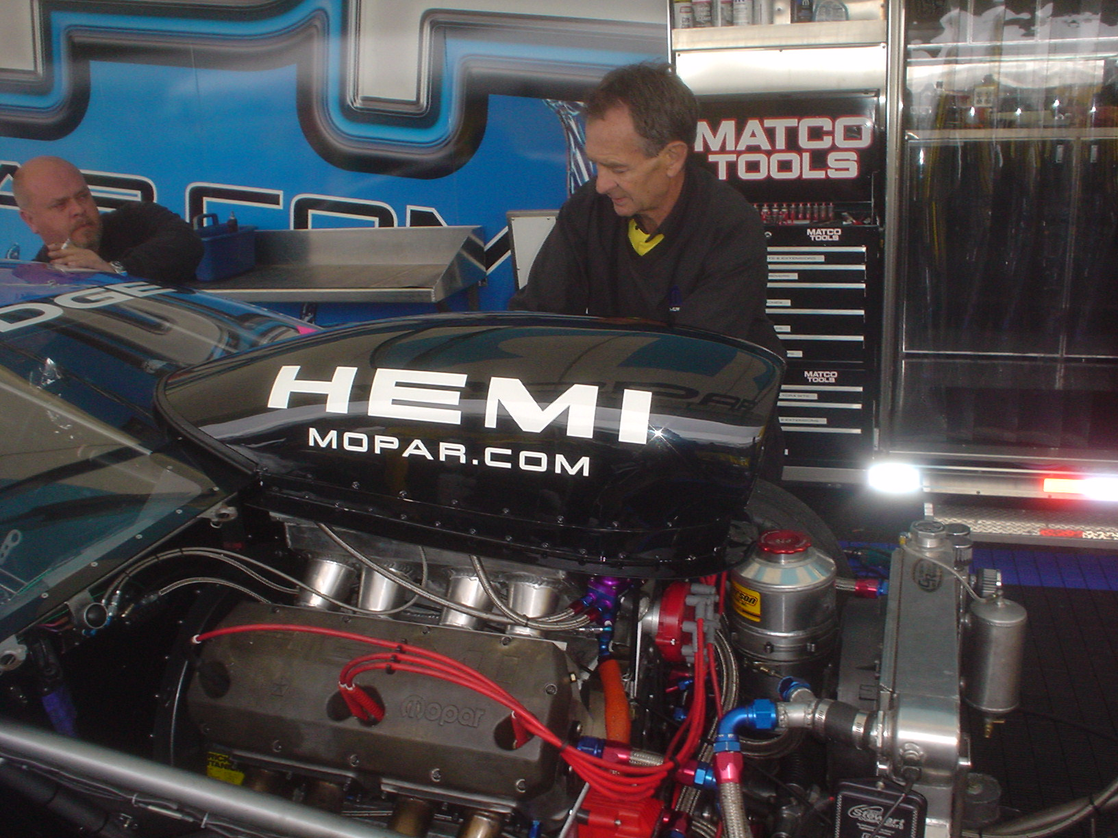 Bob Glidden, 4th on NHRA's Top 50 drivers of all time, working on a Pro Stock racecarBob won't stop working